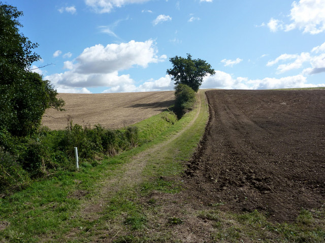 Footpath towards the A1071 Being secluded in the little valley, it is easy to forget the proximity of the A1071. However vehicles at Kersey Vale have to go a long way round to get to the nearest point of the main road as the crow flies.